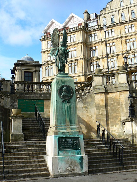 Edward VII memorial, Parade Gardens, Bath Not a good idea, using copper for a statue, as it stains the stonework green. The imposing building in the background is an hotel.